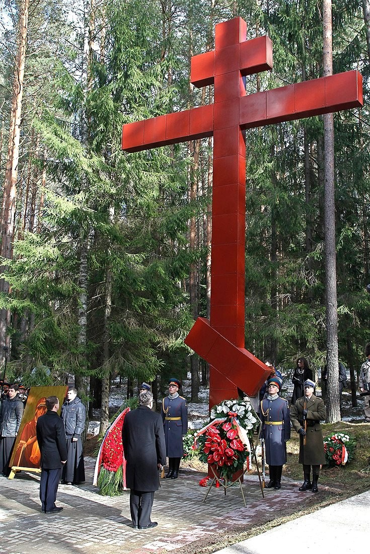 Laying wreaths at the Russian monument of the Katyn memorial complex. With President of Poland Bronislaw Komorowski.